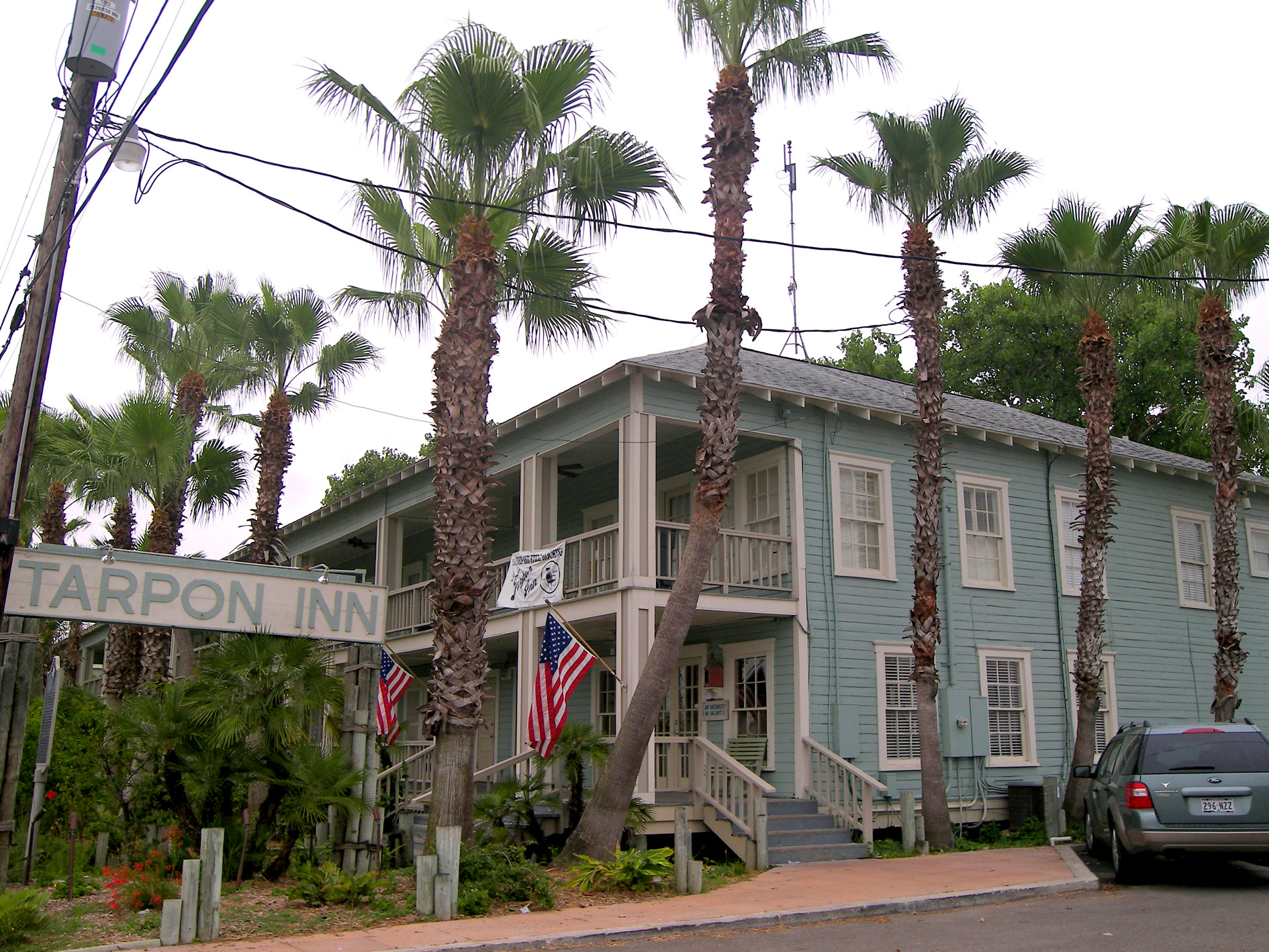 The Tarpon Inn located in Port Aransas, Texas, United States. The building was listed on the National Register of Historic Places on September 14, 1979.